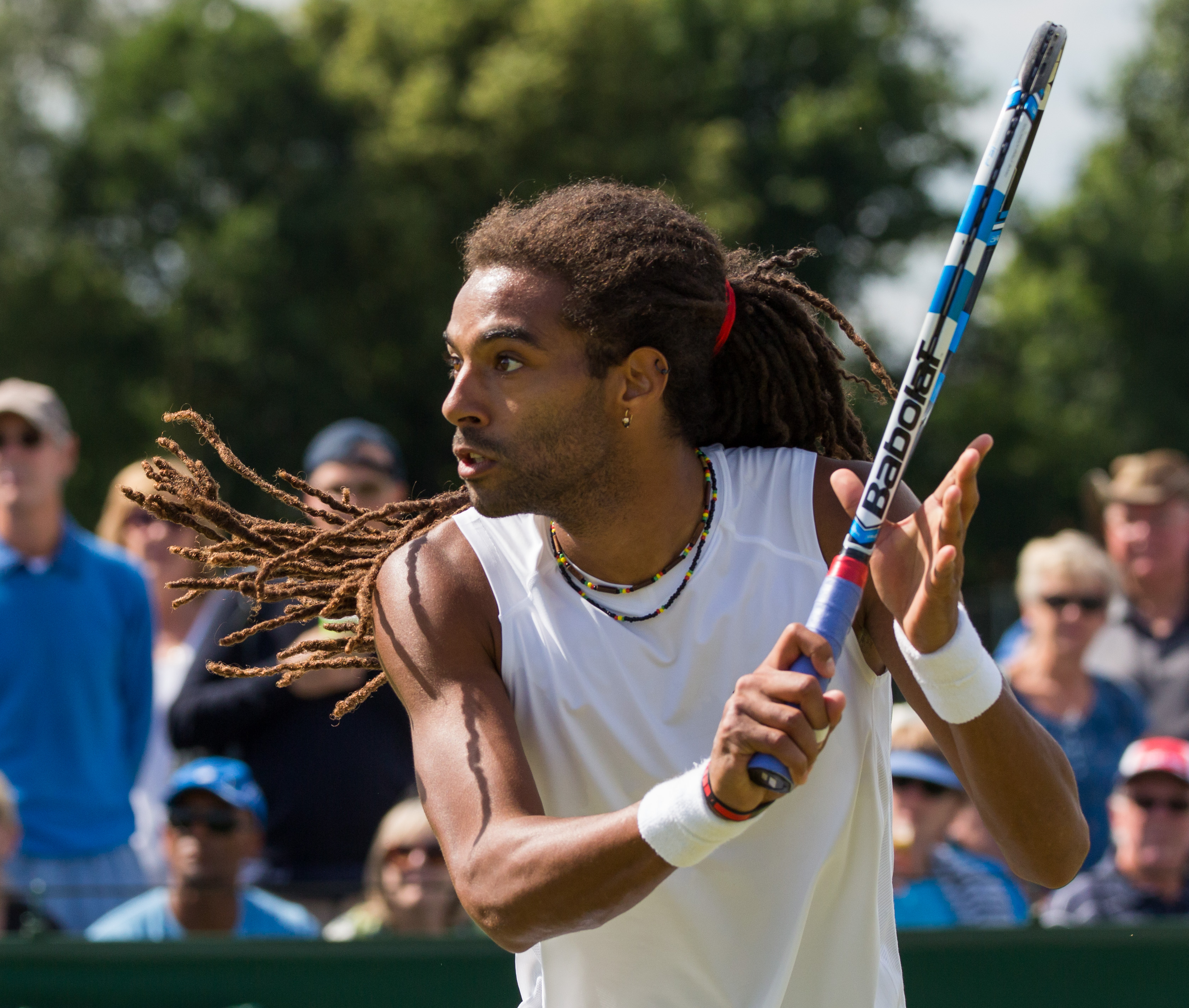 Dustin Brown competing in the second round of the 2015 Wimbledon Qualifying Tournament at the Bank of England Sports Grounds in Roehampton, England. The winners of three rounds of competition qualify for the main draw of Wimbledon the following week.